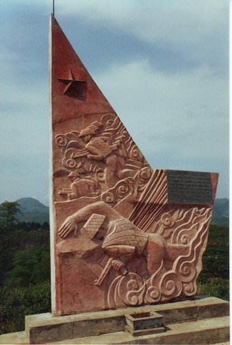 Viet Minh memorial on Strongpoint Beatrice, Battle of Dien Bien Phu, Dien Bien Phu, Vietnam